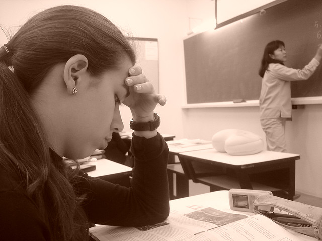 Time could pass a little faster, as mentioned at en.Wikibooks: 'Uploaded to Wikimedia 4/20/09'